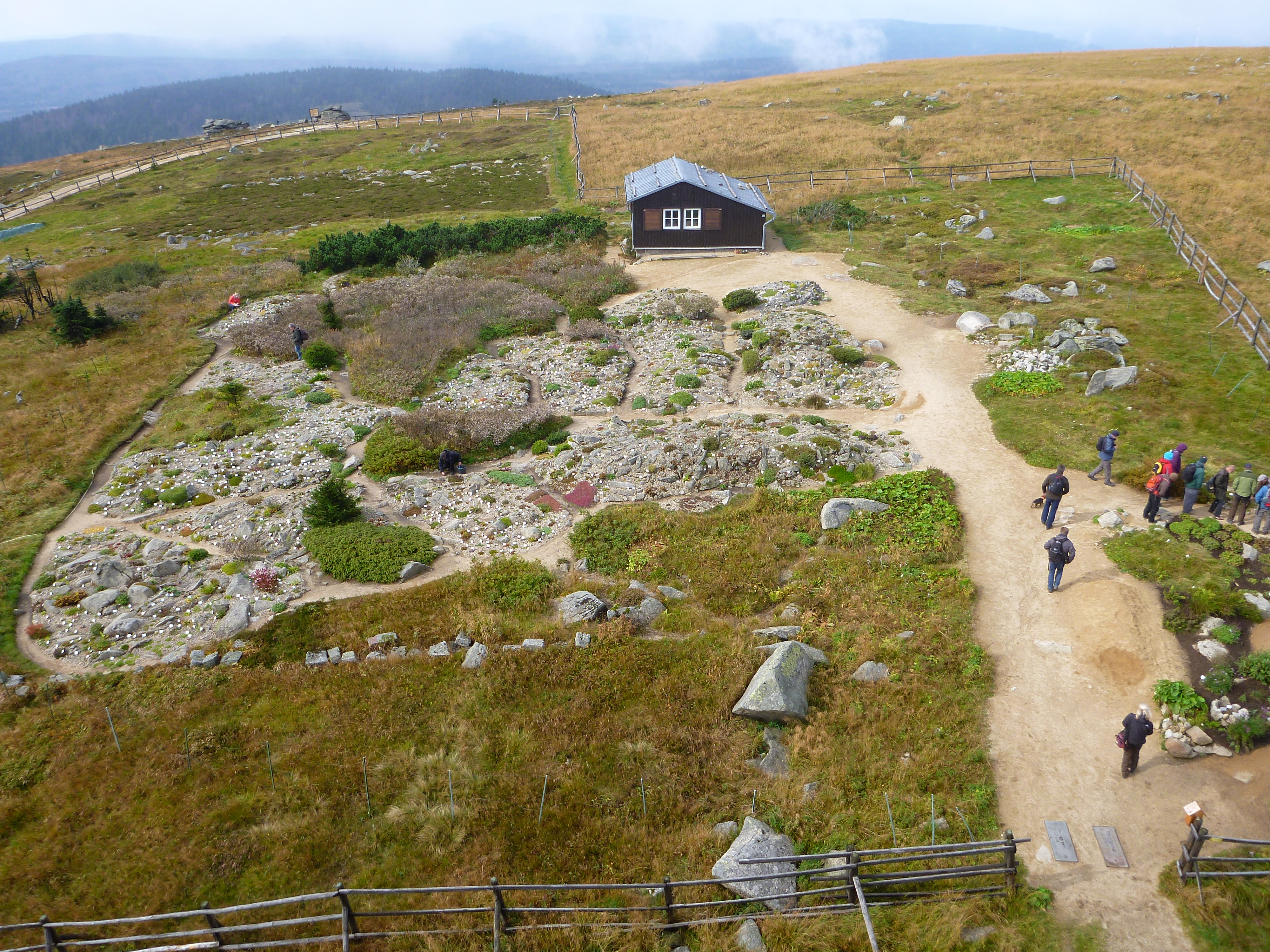 Graden on mountain Brocken, view for the tower operated by the German weather forecast service (DWD)